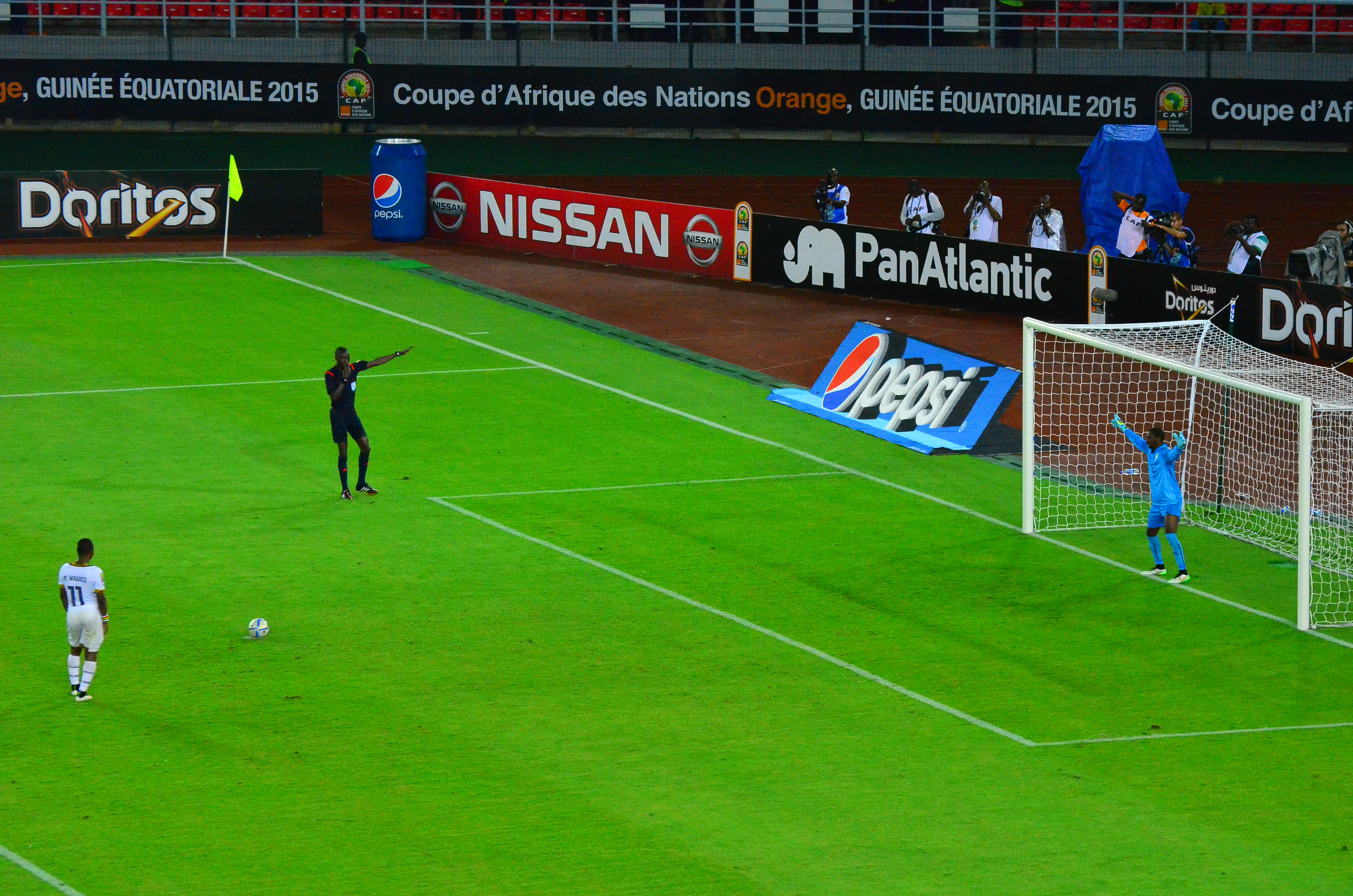 This is a picture of a soccer game (name of it is on file name).